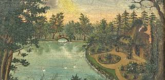 A scene from Klostermarken in Roskilde, Denmark. A small peninsula, Møstingsholm, can be seen in the Picture. It featured a small tea house where the residents of Roskilde Convent had their afternoon tea.